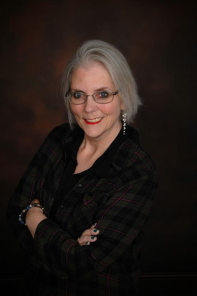 Susan Gerbic - August 2016